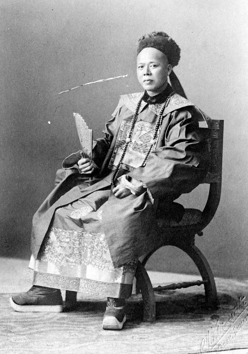 Reproduction from negative. Studio portrait of Tjong A Fie, the Kapitan Cina of Medan